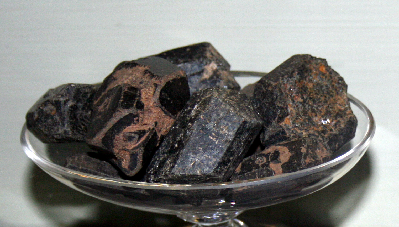 Mineral augite, chemical composition:(Ca,Mg,Fe)SiO3, from collection of National Museum, Prague, originally from Czech Republic